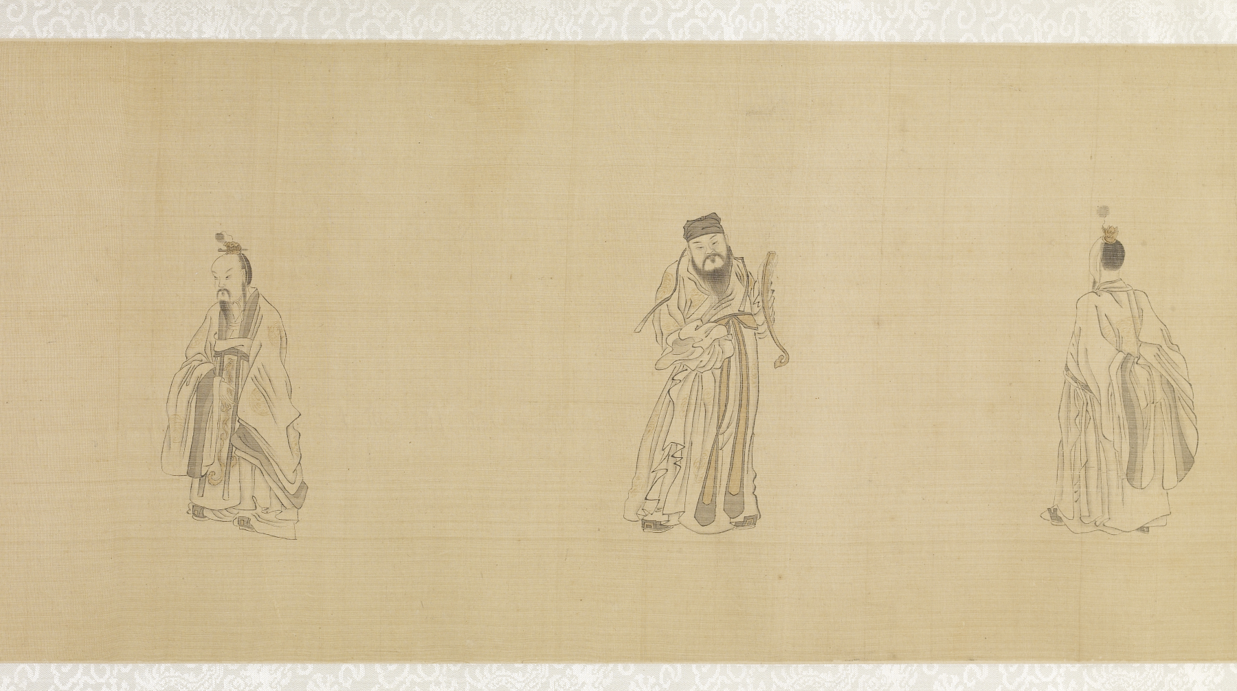 In 1669, a book was published depicting the twenty-four loyal ministers of the second emperor of the Tang [T'ang] Dynasty (reigned 627-49)-the men who helped the emperor consolidate power. The year 1669 was one in which imperial ministers were facing the challenge of bringing order throughout the empire on behalf of Kangxi [K'ang-hsi], second emperor of the Qing [Ch'ing] Dynasty (reigned 1662-1722). Historical records state that portraits of the Tang [T'ang] ministers had been painted on the walls of the Gallery that traverses Smoky Clouds (Lingyengo [Ling-yen-ko]), a building on the palace grounds. This handscroll, by an unknown but immensely skilled painter, reproduces almost exactly the imaginary portraits in the book, which were designed by Lin Yuan, an artist who went to work at the imperial court in the 1670s. (1) Changsun Wuji [Ch'ang-sun Wu-chi] Minister of Education (2) Li Xiaogong [Li Hsiao-kung] Minister of Works (3) Du Ruhui [Tu Ju-hui] Minister of Works Commanader of the Heir Designate (4) Wei Zheng [Wei Cheng] Minister of Works Grand Preceptor of the Heir Designate (5) Fang Xuanling [Fang Hsüan-ling] Minister of Works Duke of the Kingdom of Liang (6) Gao Jian [Kao Chien] Minister of Education (7) Weichi Jingde [Wei-ch'ih Ching-te] Commander Unequaled in Honor (8) Li Jing [Li Ching] Specially Advanced Duke of the Kingdom of Wei (9) Xiao Yu [Hsiao Yu] Specially Advanced Duke of the Kingdom of Sung (10) Yuan Jixuan [Yüan Chi-hsüan] Grand Bulwark General of the State